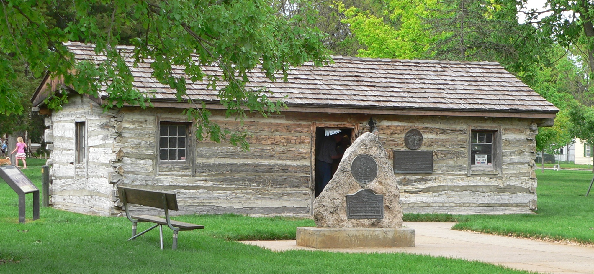 Pony Express station in Ehmen Park in Gothenburg, Nebraska; seen from the southwest. According to a plaque on the building, it was constructed in 1854 near Fort McPherson, Nebraska, and was moved to Gothenburg in 1931.